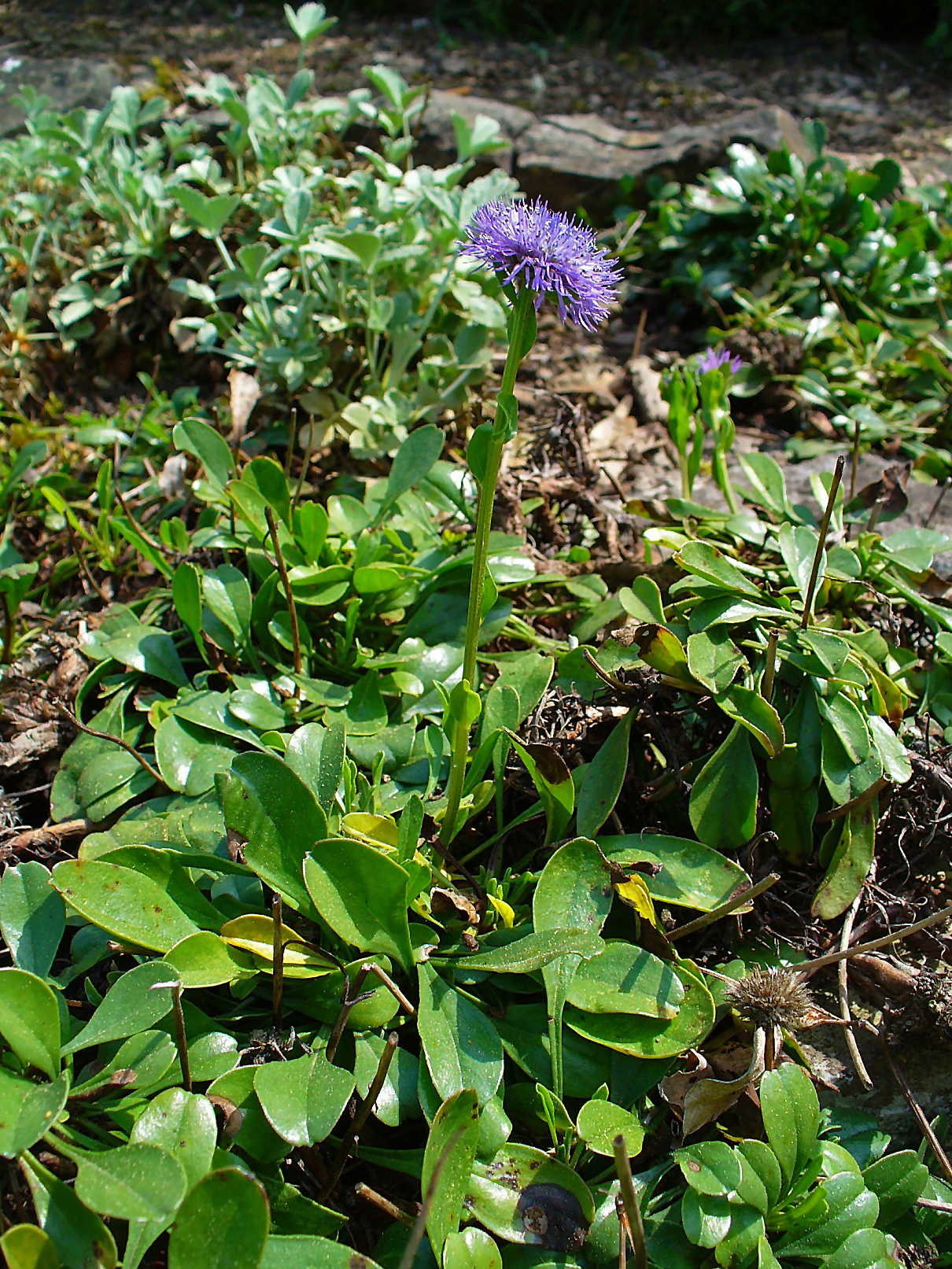 Globularia trichosantha, Plantaginaceae, Globe Daisy, habitus; Botanical Garden KIT, Karlsruhe, Germany.